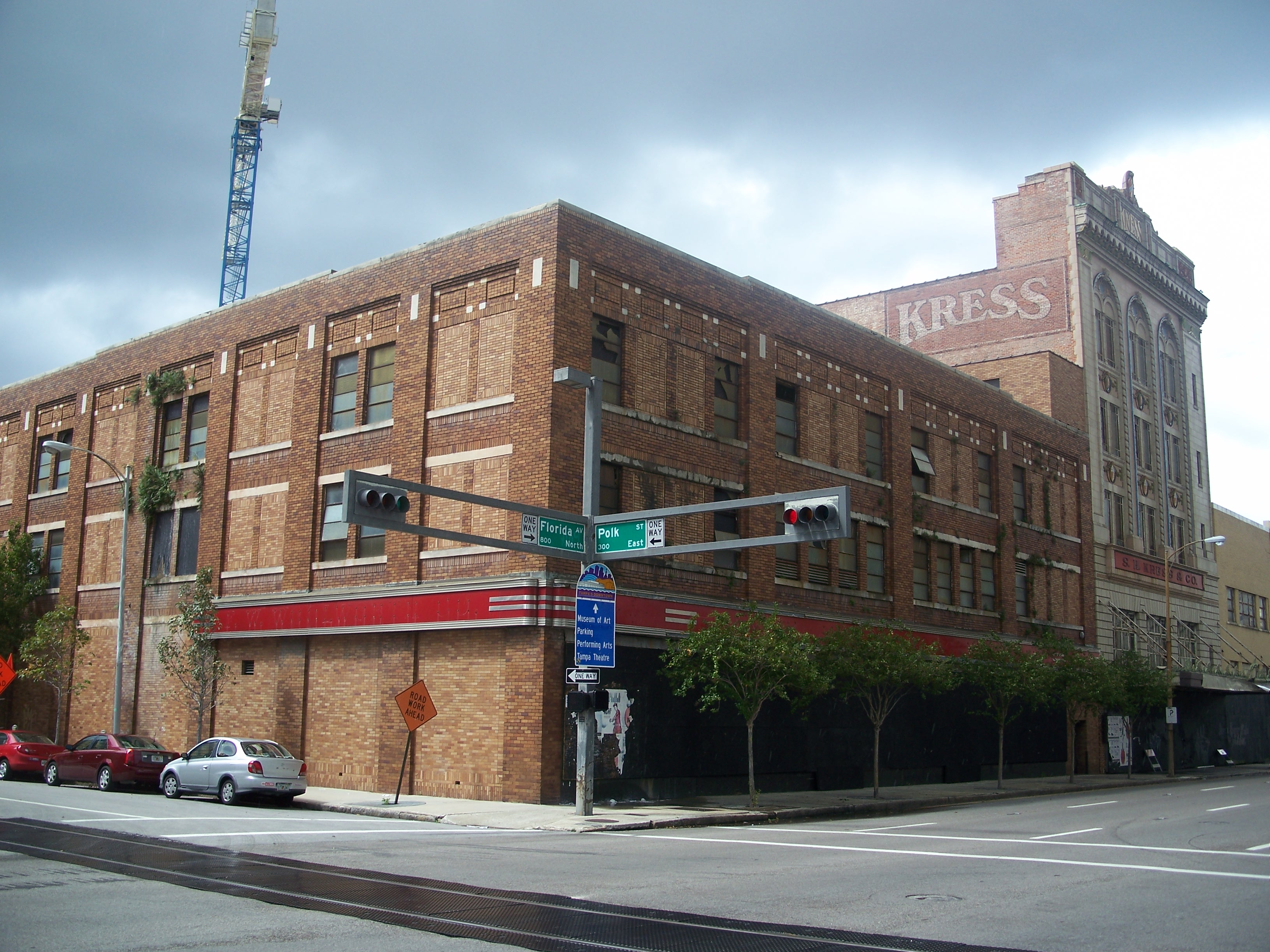 Old S. H. Kress and Company building in downtown Tampa, Florida